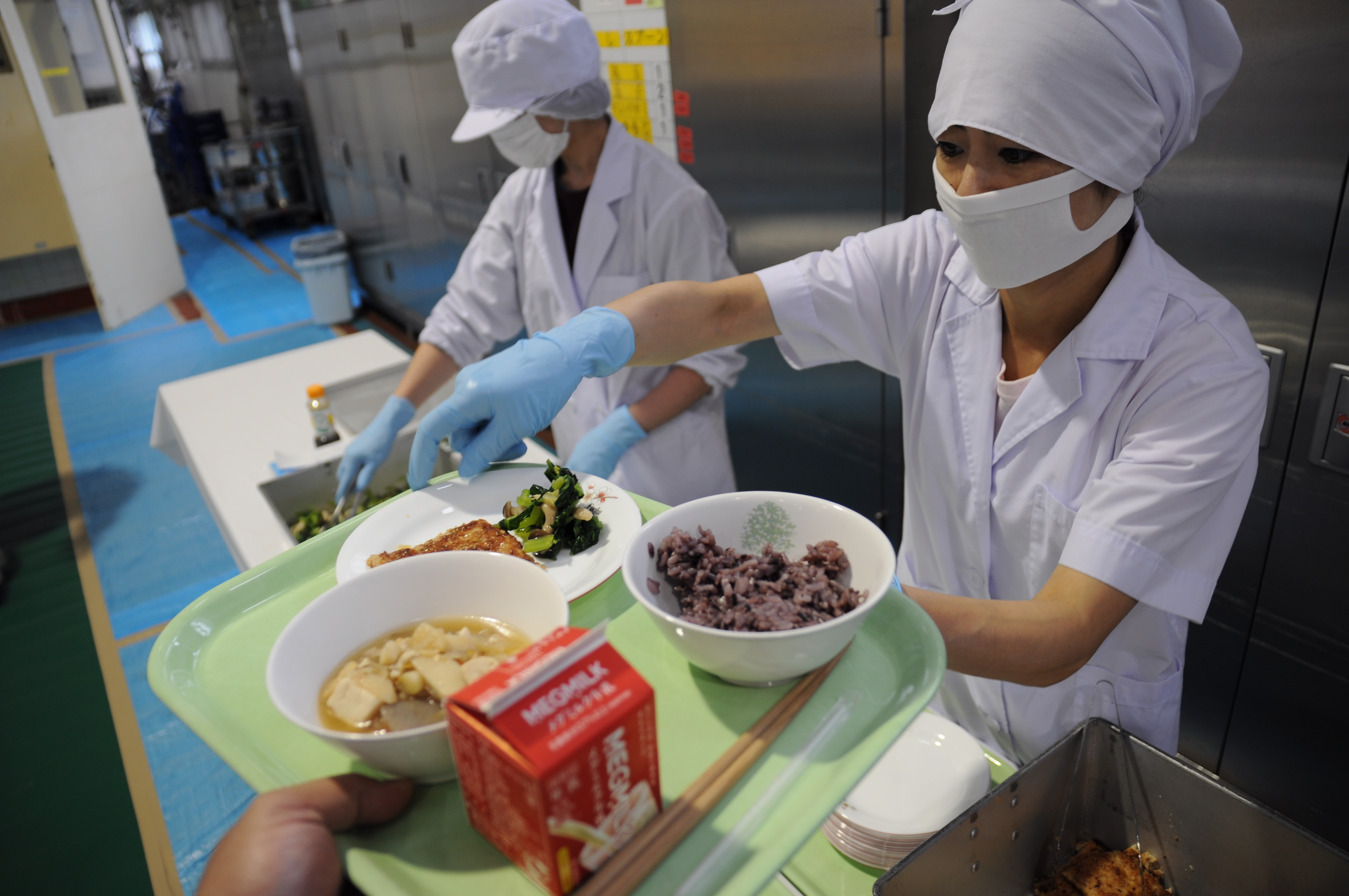 A school lunch trial service. Taken in Fuchū, Tokyo, Japan.